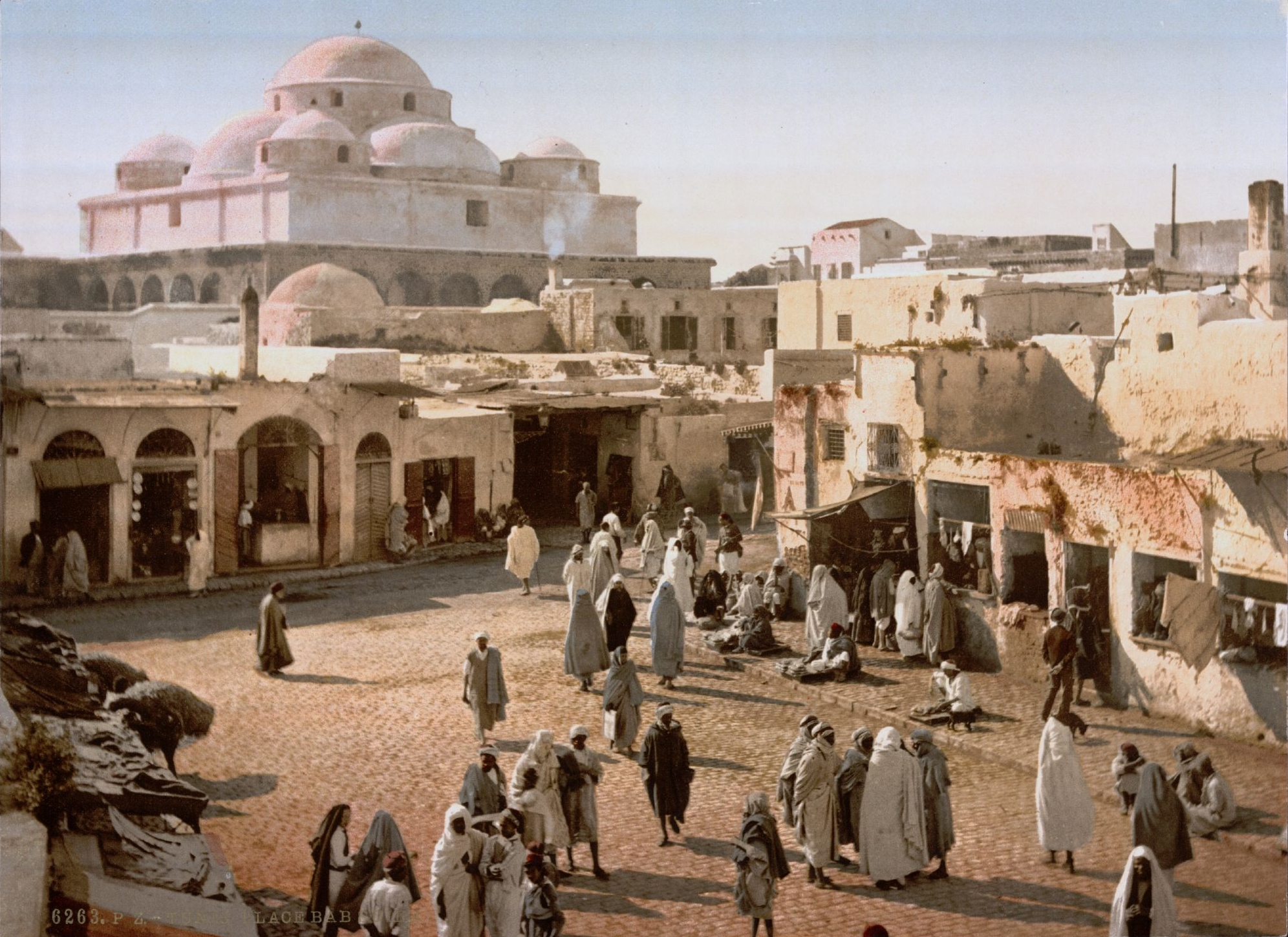 Bab Souika in Tunis (Tunisia, 1899).